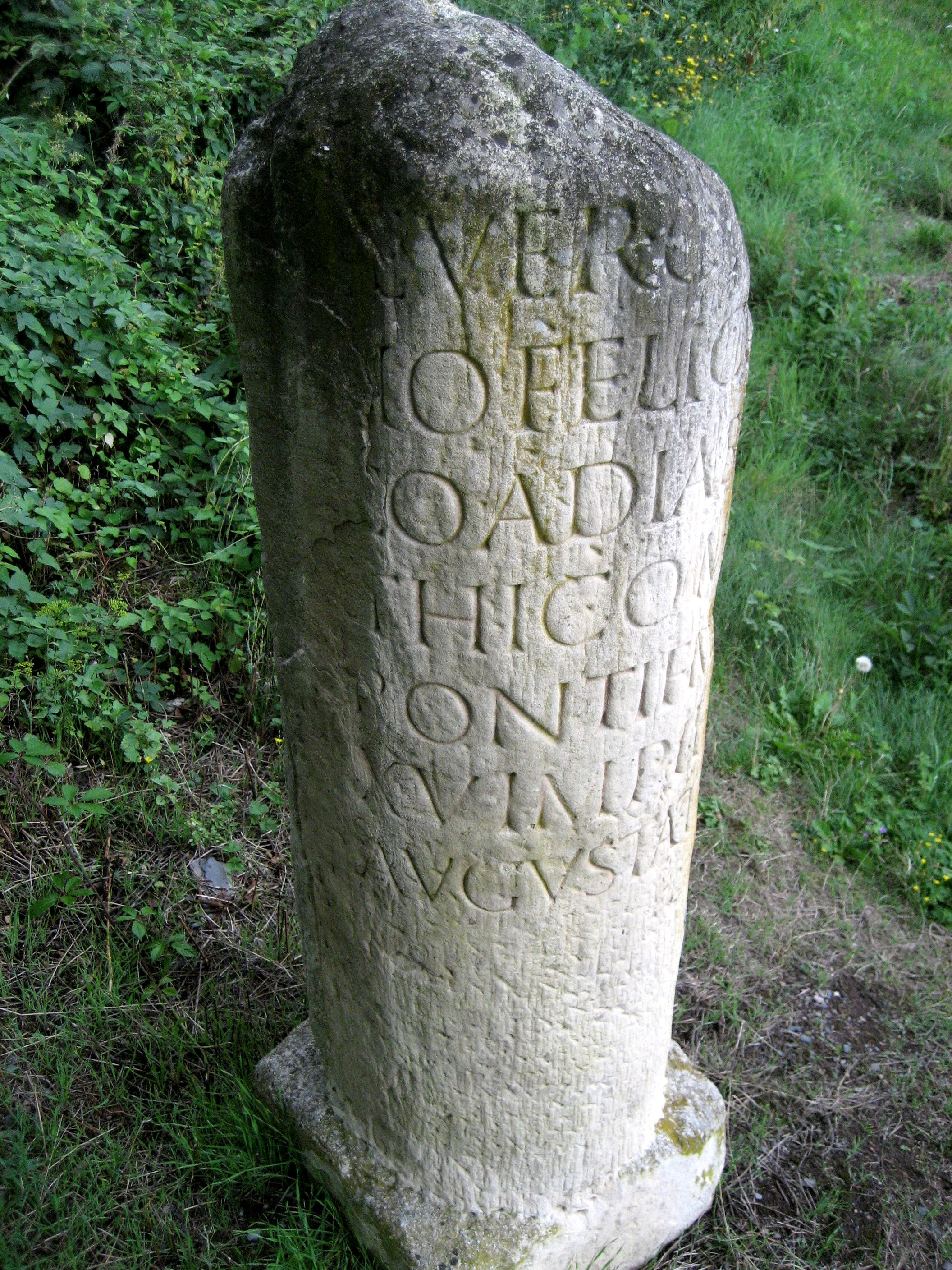 Replica of Roman Milestone, Pölich, Germany